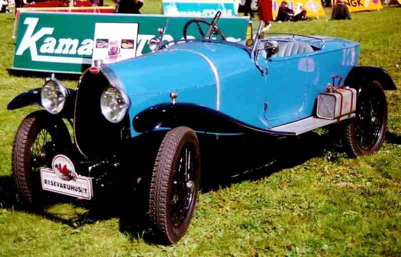 Bugatti Type 23 Brescia 2-Seater Sports 1925